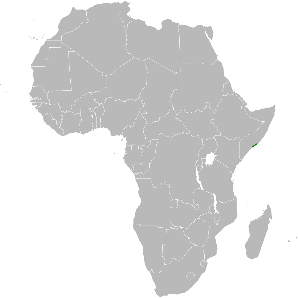 Mirafra ashi distribution map; using BlankMap-Africa.svg, based on